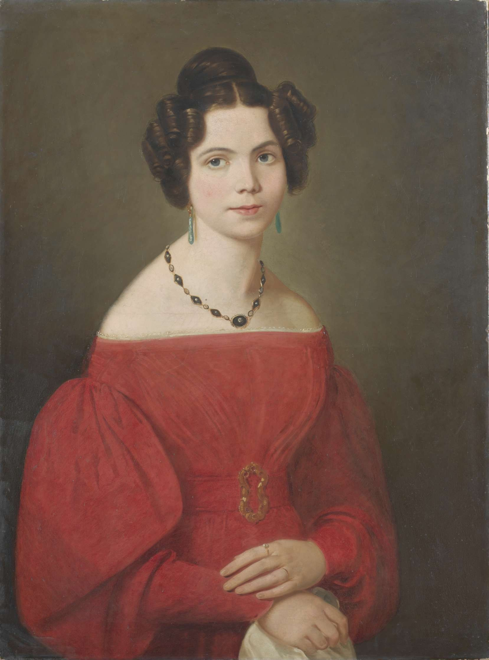 Depicted person: Franziska Schier (1807-1847), sister of Karl Christian Aubel